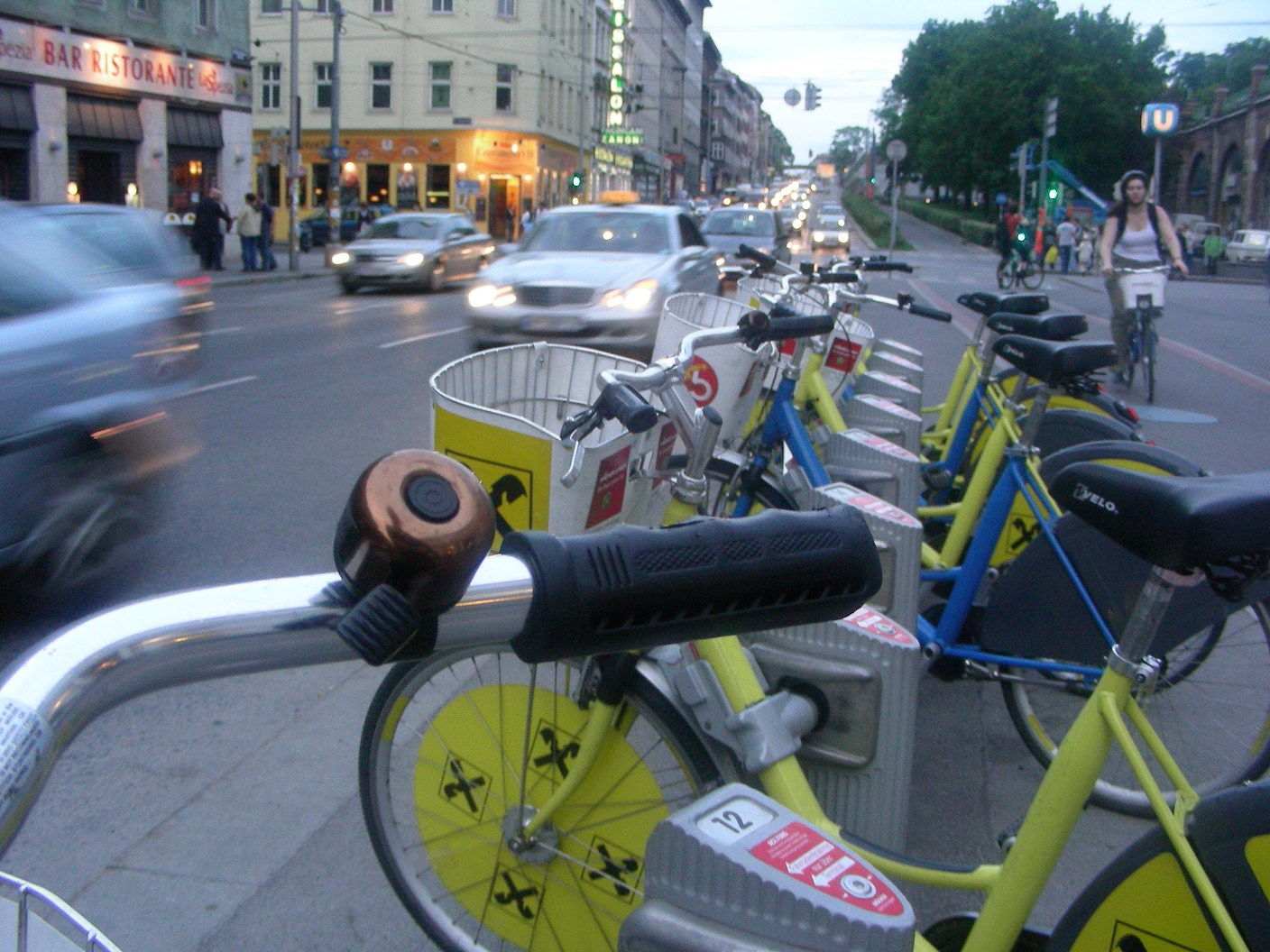 Citybike terminal in Vienna, Austria in front of the Alser Strasse subway station.